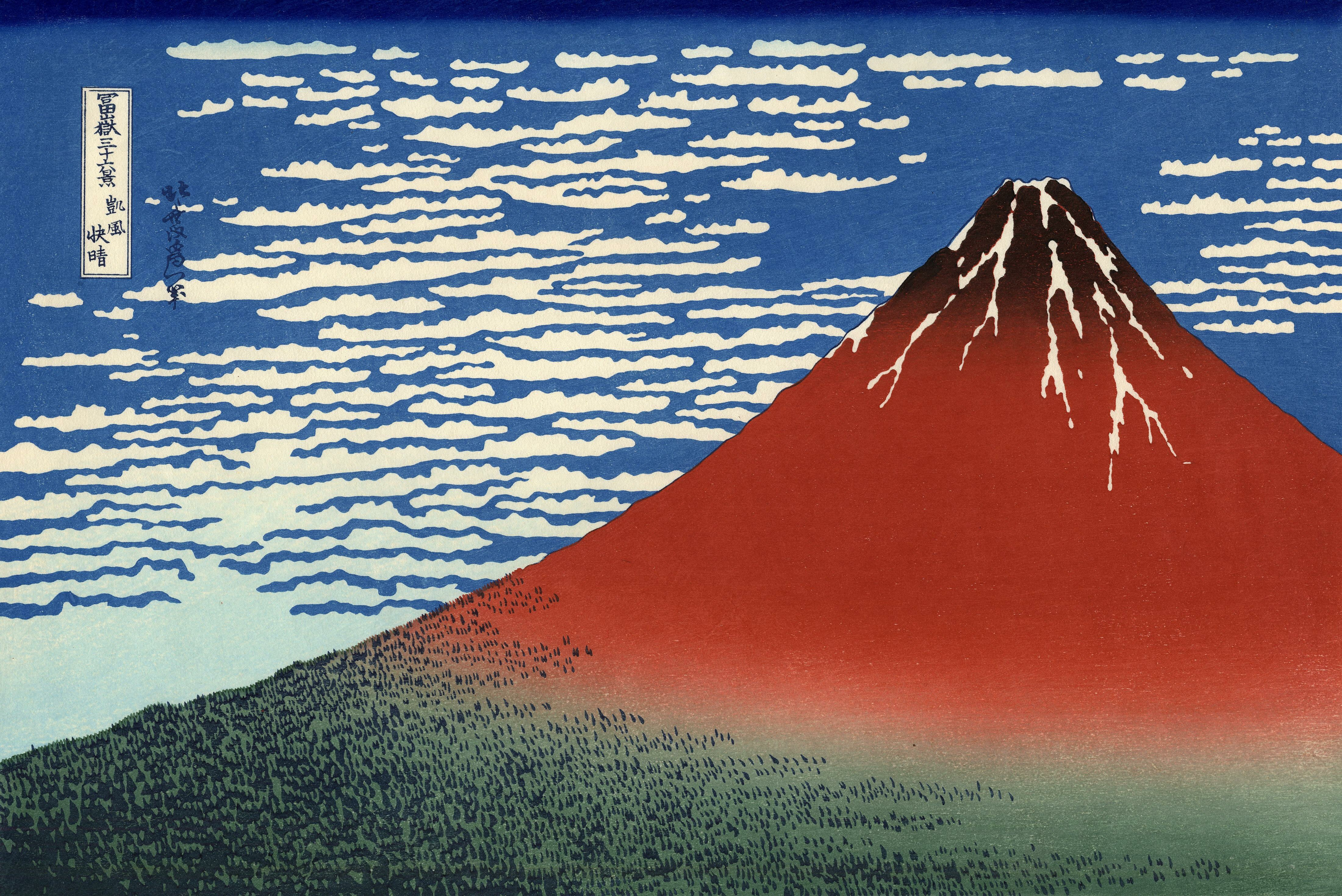 Part of the series Thirty-six Views of Mount Fuji, no. 33.